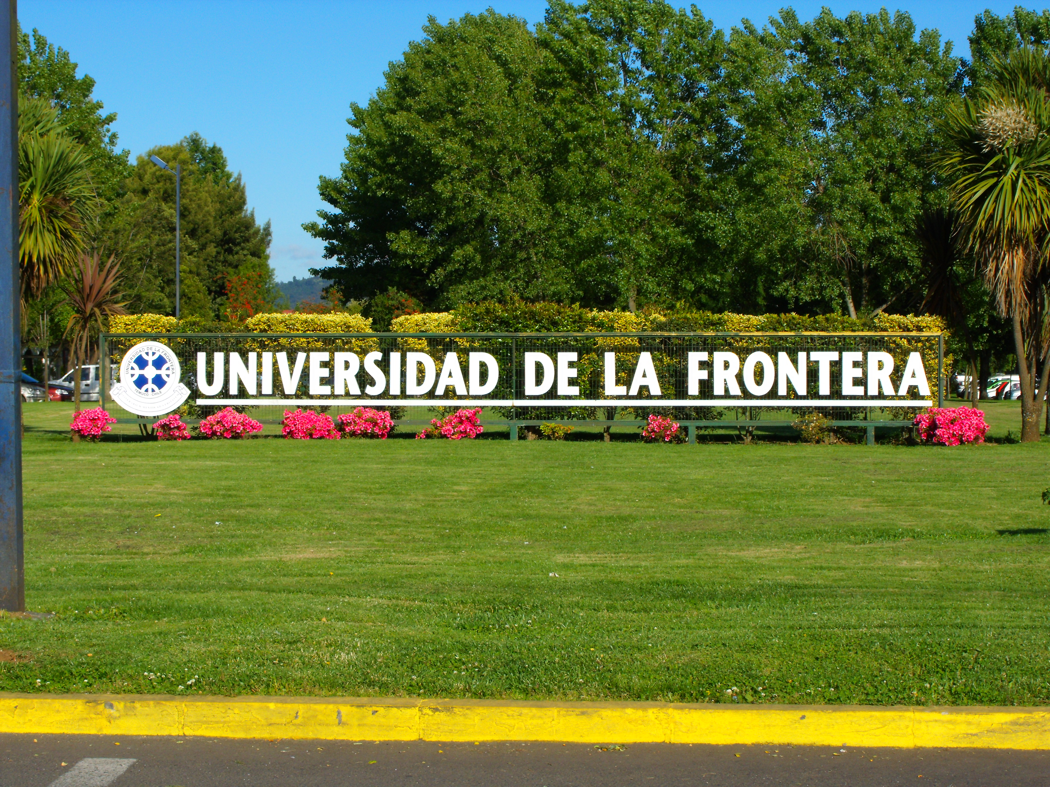 University of La Frontera, Andrés Bello campus.